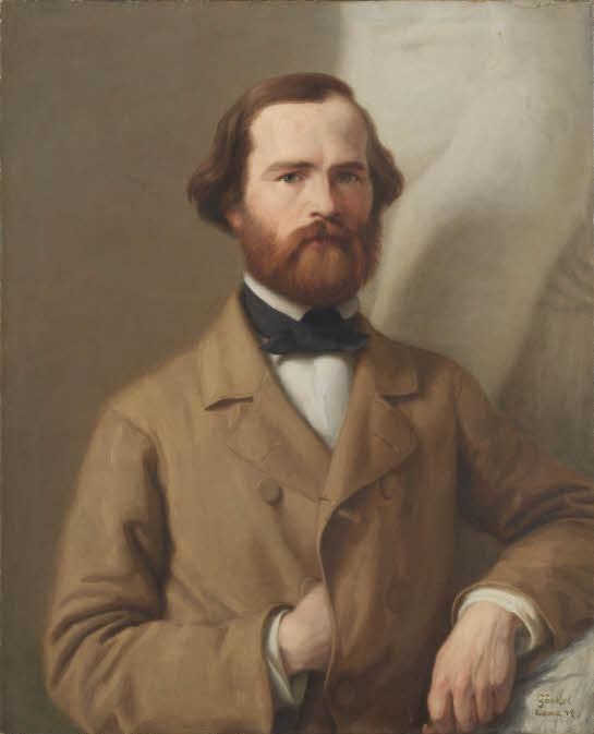 Portrait of sculptor Gustav Kaupert, signed and dated lower right corner: Gunkel Roma 49